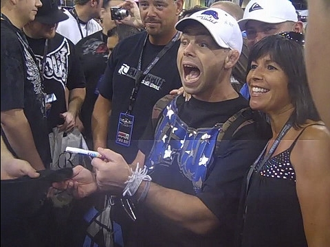 Jens Pulver with fans - UFC 100 Fan Expo - Mandalay Bay Casino, Las Vegas